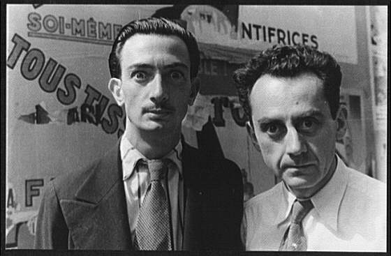 Title: Portrait of Man Ray and Salvador Dali, Paris Abstract/medium: 1 photographic print : gelatin silver.